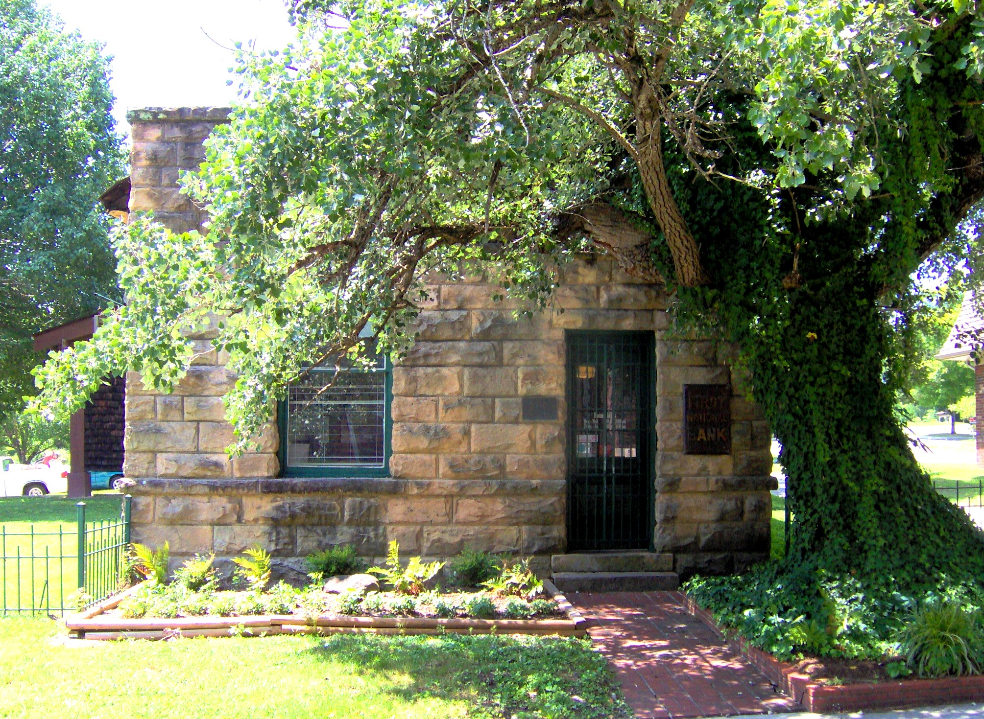 The First National Bank building in Huntsville, Tennessee, in the southeastern United States. This building, opposite the Scott County Courthouse, was built in 1906 using a type of native sandstone. At one time, every building in the square, including the courthouse, consisted of this sandstone.